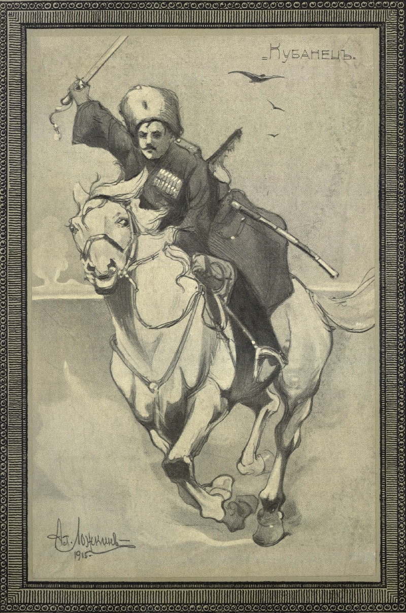 A drawing of a Kuban Cossack from the 4th issue of Великая война в образах и картинах ("The Great War in images and pictures")